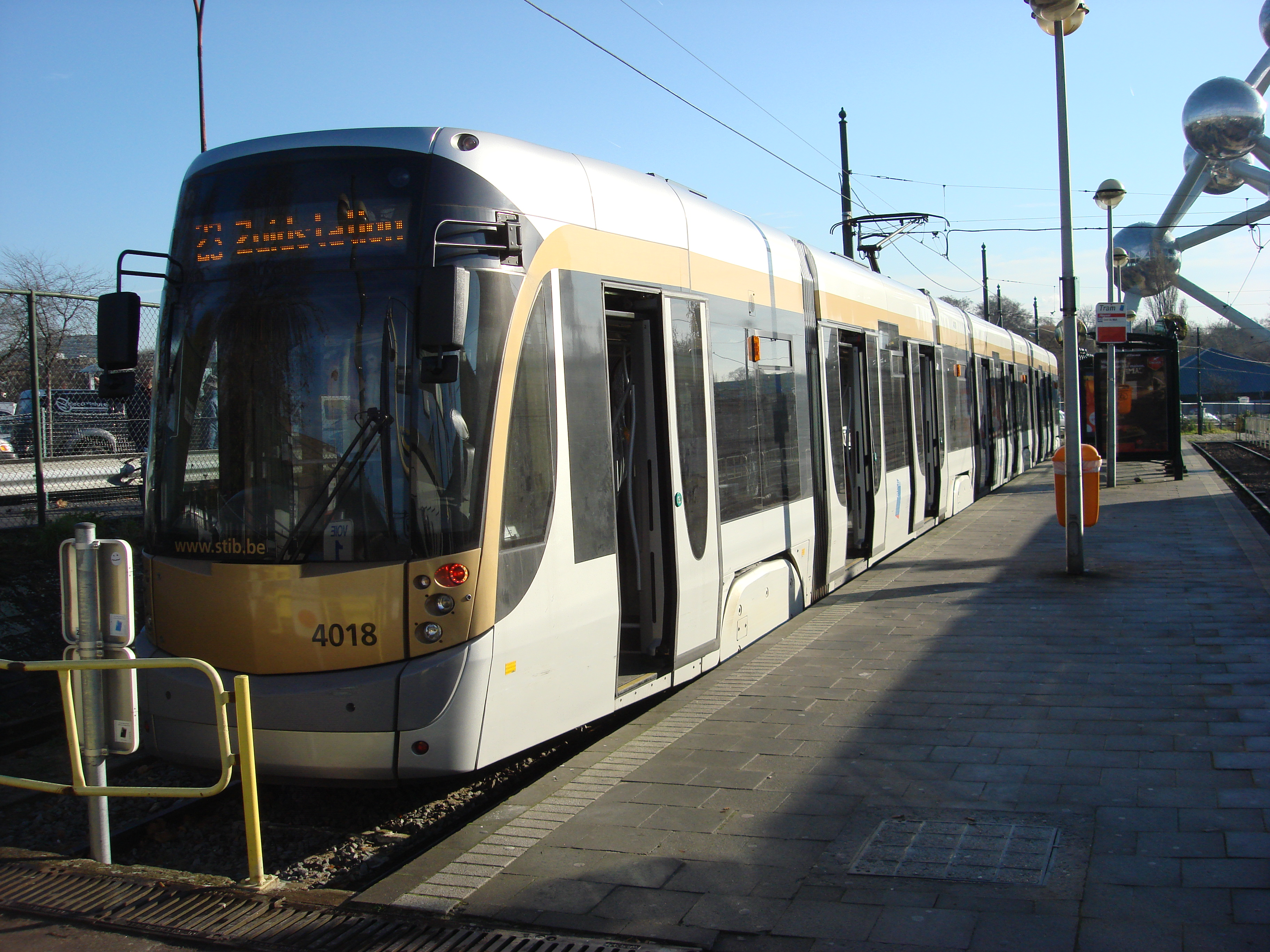 STIB-MIVB Tram number 4018 at Heysel